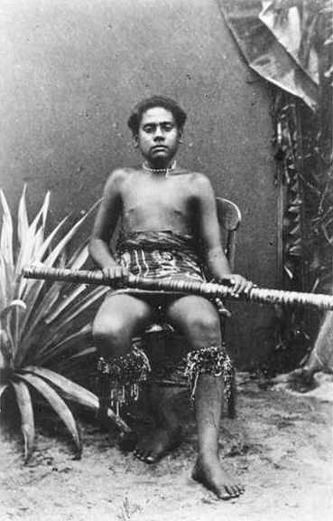 Ratu Josefa Celua, third son of Cakobau, between 1870 and 1879. As a young man in native attire.